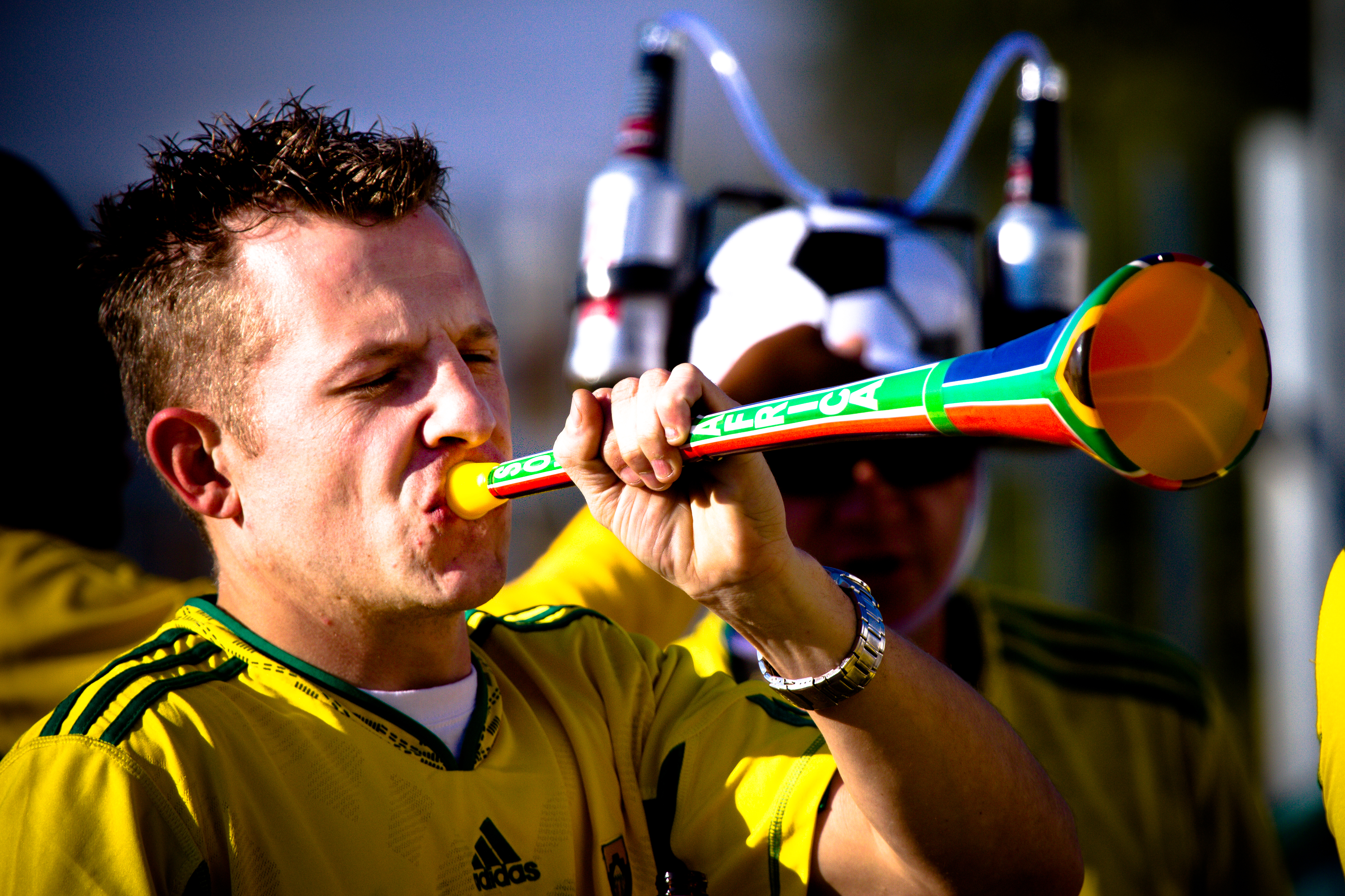 View on black using B%c3%bchrmann/Recent Fiveprime's Black Magic. A vuvuzela with the southafrican flag.